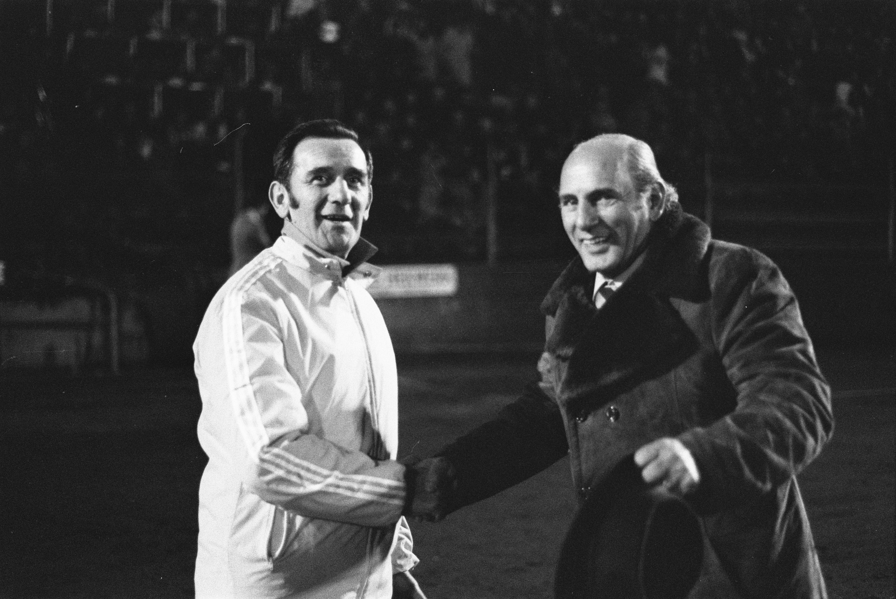 Dutch coach George Knobel and Italian coach Fulvio Bernardini shake hands before the match of the national football teams of the Netherlands and Italy (3-1), Rotterdam, 20 November 1974